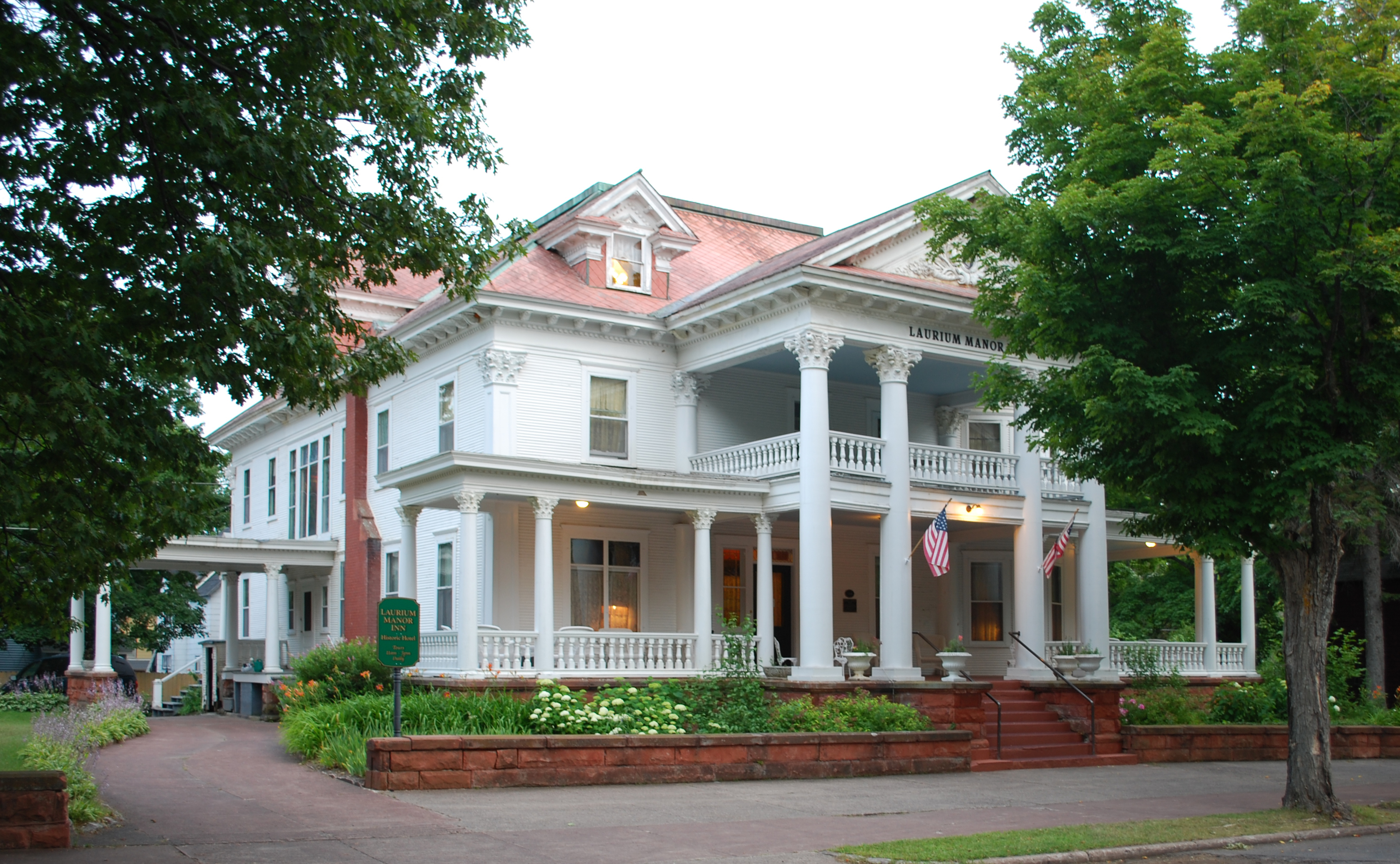 The Thomas H Hoatson House (Laurium Manor Inn) in Laurium, Houghton County, Upper Peninsula, Michigan. A 1906 Neoclassical house, within Keweenaw National Historical Park, and on the National Register of Historic Places in Houghton County, Michigan.